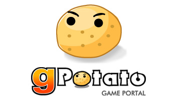 This is the current game portal logo for GALA Group. The Free-to-Play gaming portal is called "gPotato".